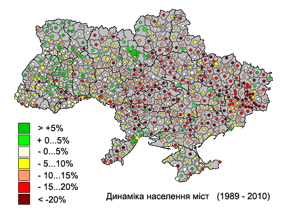 Population dynamics of ukrainian major urban centers.